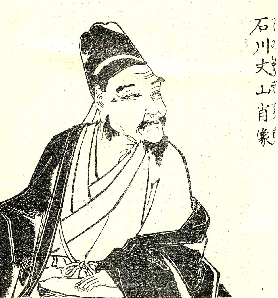 Ishikawa Johzan（石川 丈山）was a Japanese Confucian philosopher of Edo Period.